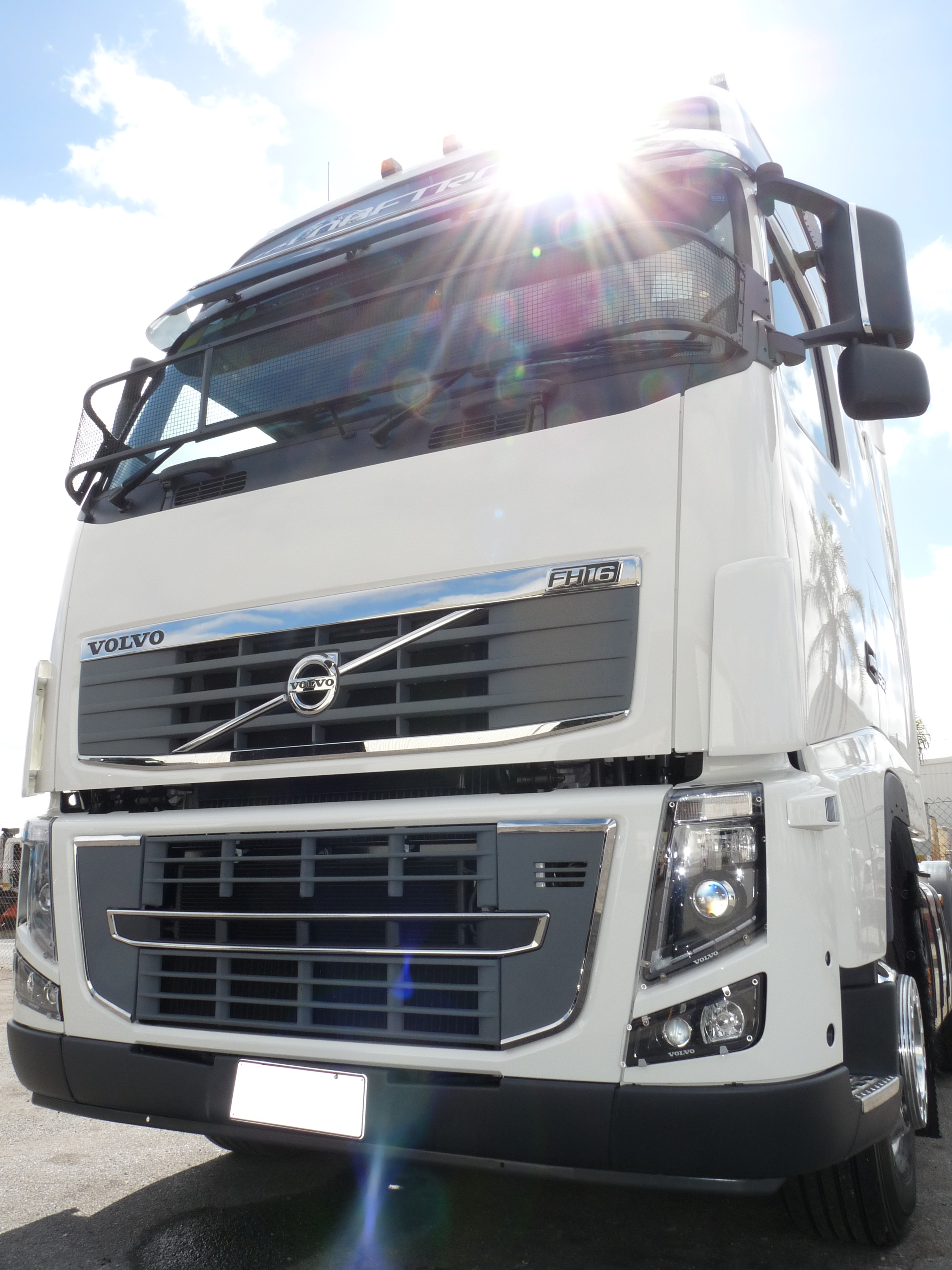 Volvo FH16 Version 2 Mk.2 close up. (Australian version)